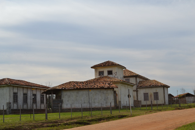 Brazilian movie picture "O Tempo e o Vento" ("The Time and the Wind") setting at Bagé, RS, Brazil, general view